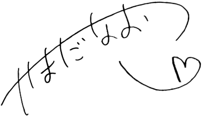 Naoko Yamada; Signature of animator Yamada Naoko (山田 尚子) in hiragana (やまだ なおこ)